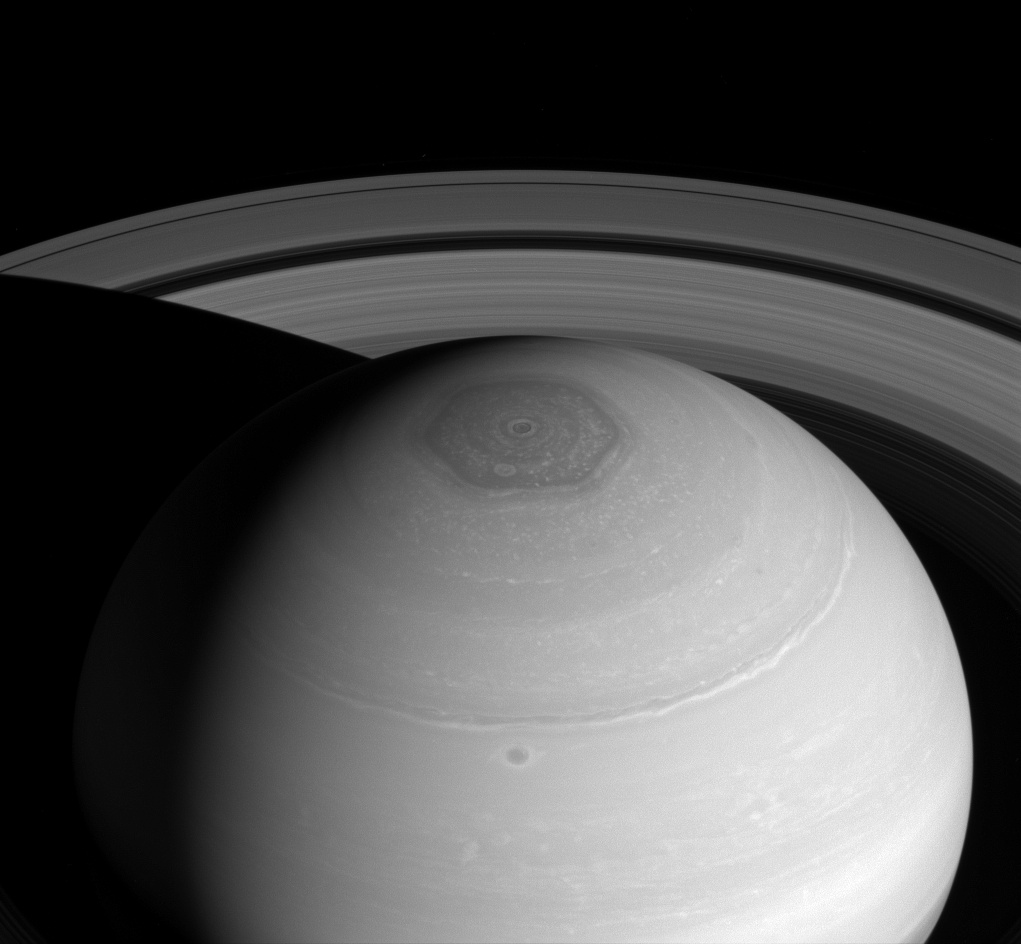 Planet Saturn - Vortex and Rings The Cassini spacecraft captures three magnificent sights at once: Saturn's north polar vortex and hexagon along with its expansive rings. The hexagon, which is wider than two Earths, owes its appearance to the jet stream that forms its perimeter. The jet stream forms a six-lobed, stationary wave which wraps around the north polar regions at a latitude of roughly 77 degrees North. This view looks toward the sunlit side of the rings from about 37 degrees above the ringplane. The image was taken with the Cassini spacecraft wide-angle camera on April 2, 2014 using a spectral filter which preferentially admits wavelengths of near-infrared light centered at 752 nanometers. The view was obtained at a distance of approximately 1.4 million miles (2.2 million kilometers) from Saturn and at a Sun-Saturn-spacecraft, or phase, angle of 43 degrees. Image scale is 81 miles (131 kilometers) per pixel. The Cassini-Huygens mission is a cooperative project of NASA, the European Space Agency and the Italian Space Agency. The Jet Propulsion Laboratory, a division of the California Institute of Technology in Pasadena, manages the mission for NASA's Science Mission Directorate, Washington, D.C. The Cassini orbiter and its two onboard cameras were designed, developed and assembled at JPL. The imaging operations center is based at the Space Science Institute in Boulder, Colo. For more information about the Cassini-Huygens mission visit and . The Cassini imaging team homepage is at .